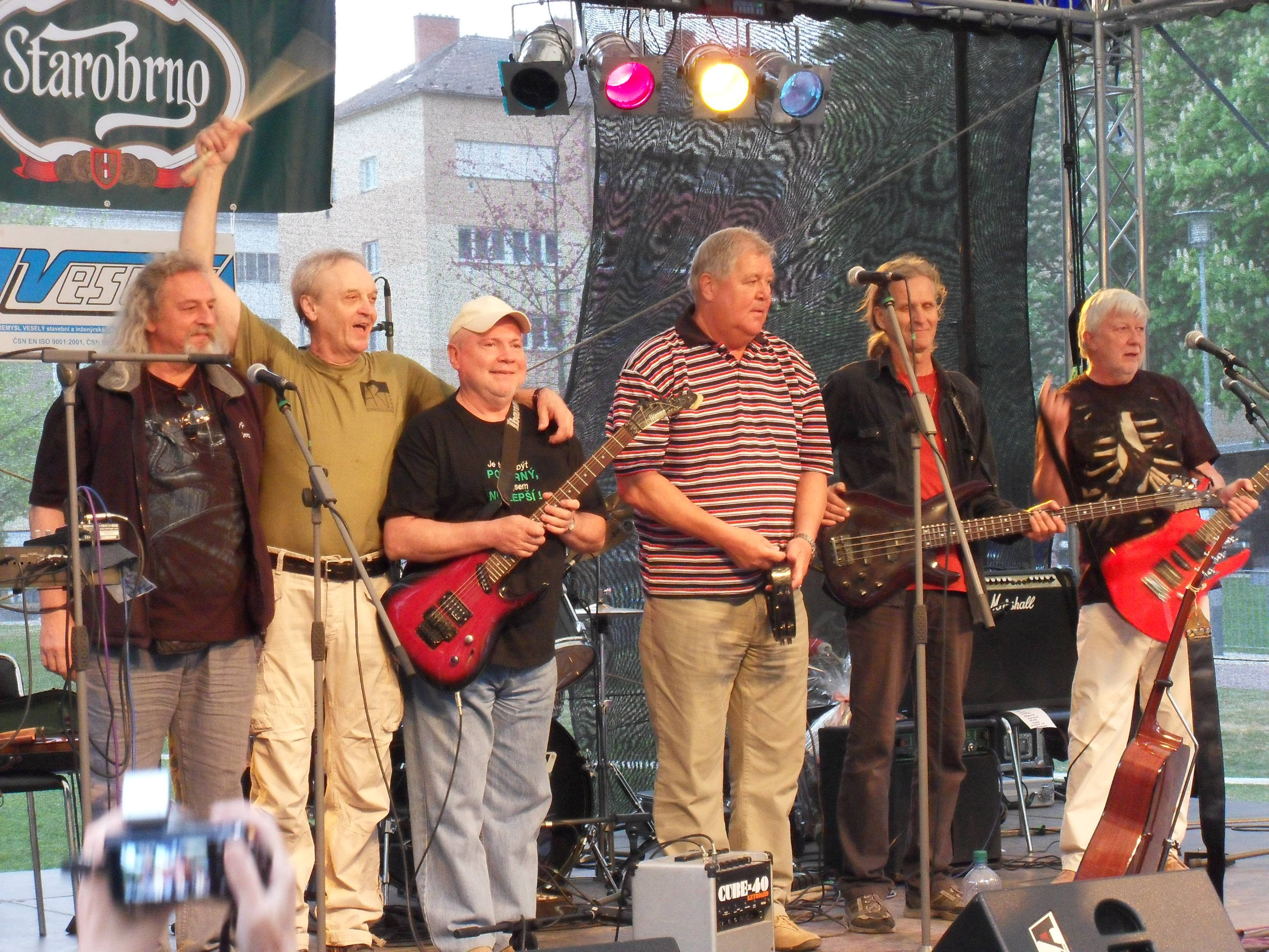 Czech rock band Synkopy 61, from left to right: Jan Korbička, Jiří Rybář, Pavel Pokorný, Michal Polák, Vilém Majtner, Petr Směja, Brno, Czech Republic